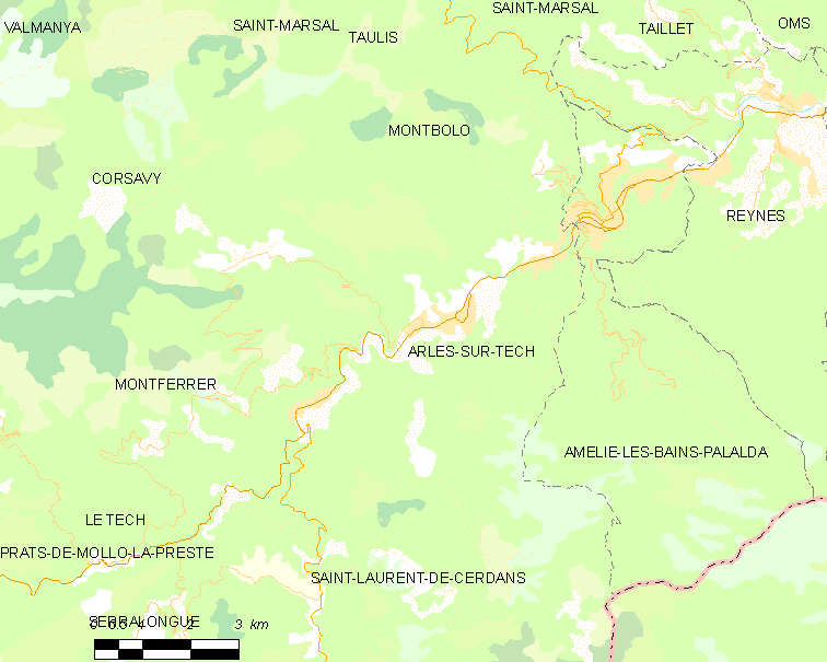 Map of French municipality